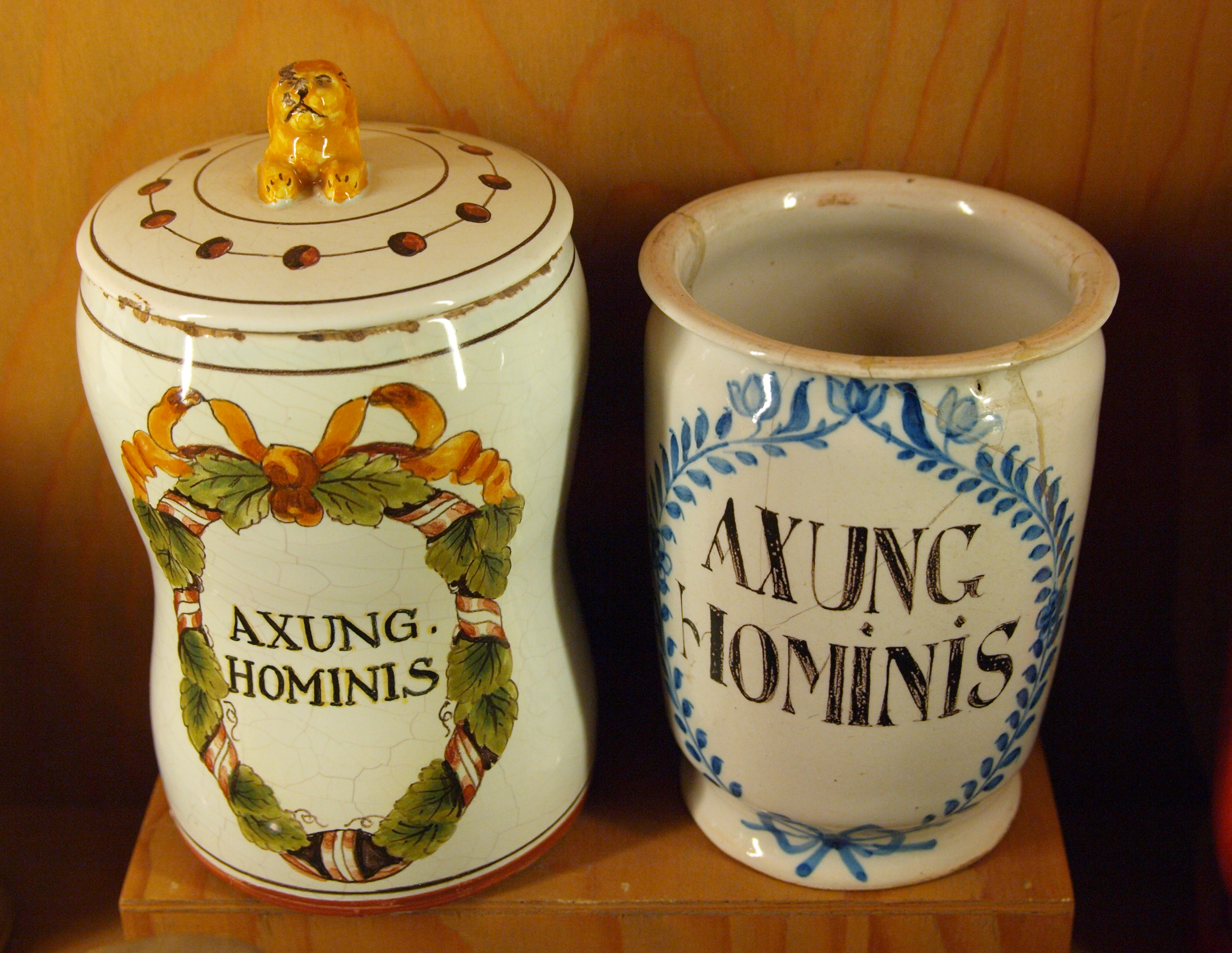 Two apothecary vessels (albarelli) with inscription AXUNG. HOMINIS (Human fat) dating approx. 17th or 18th century at Deutsches Apothekenmuseum Heidelberg, Germany.